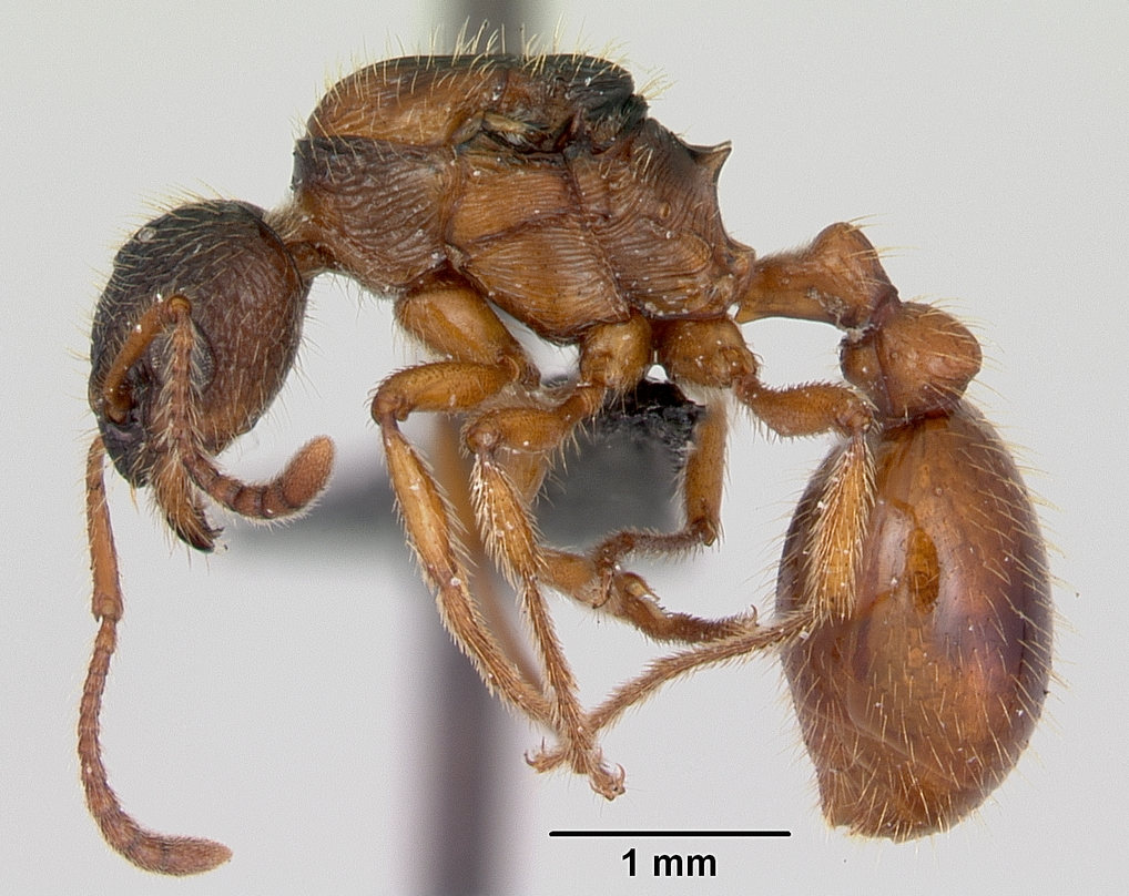 Profile view of ant Myrmica rubra specimen casent0172707.